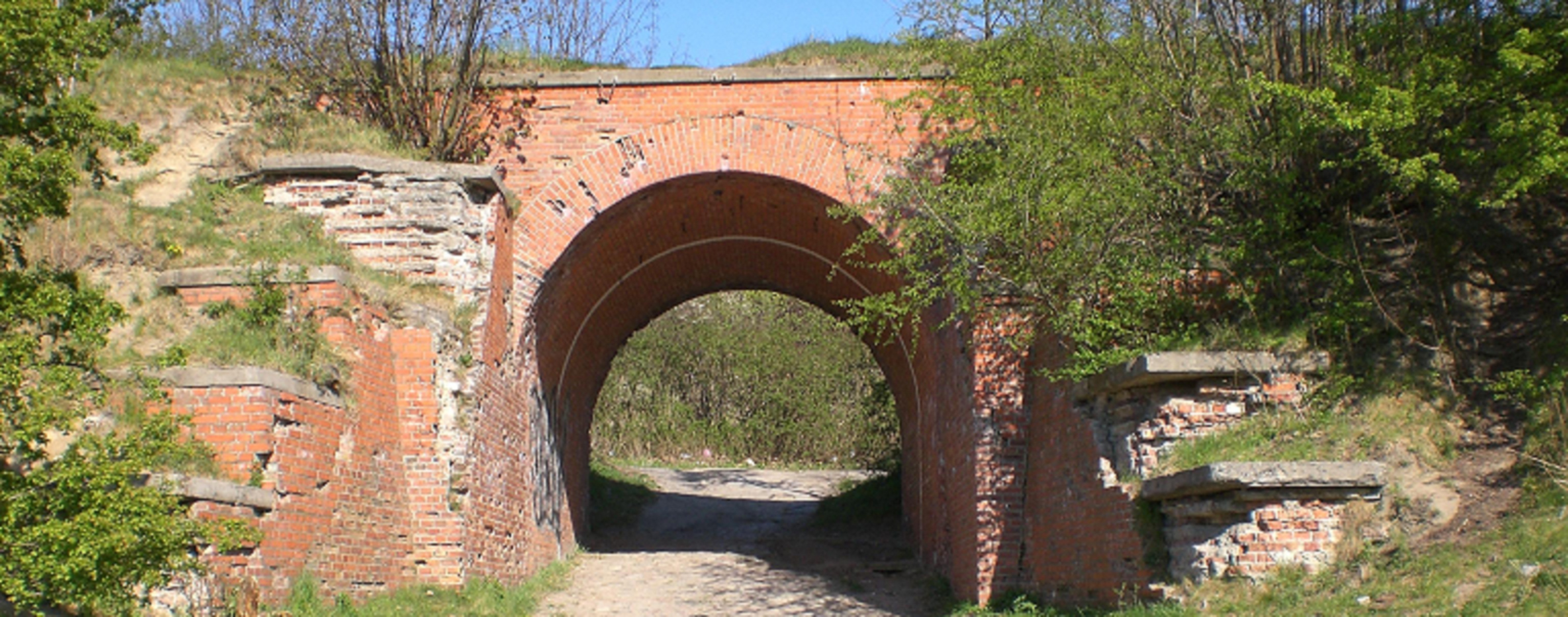 Former railway line from Gdańsk Wrzeszcz to Stara Piła